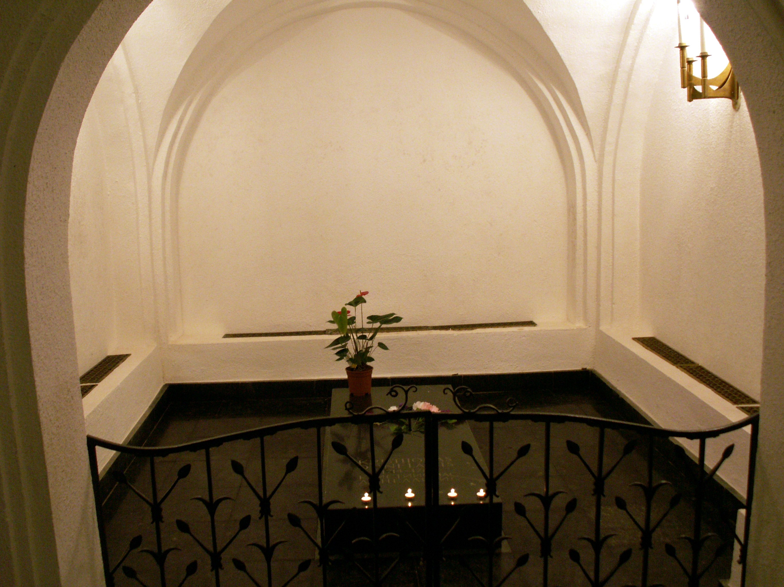 Tolminkiemis (Tchistye Prudy) in Kaliningrad oblast. Museum of Kristijonas Donelaitis